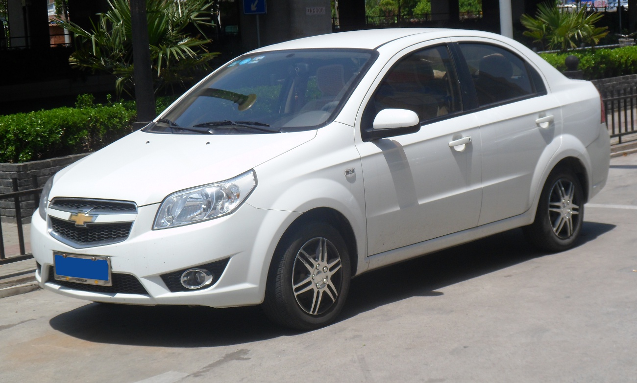 Chevrolet Lova facelift photographed in Shanghai, China.